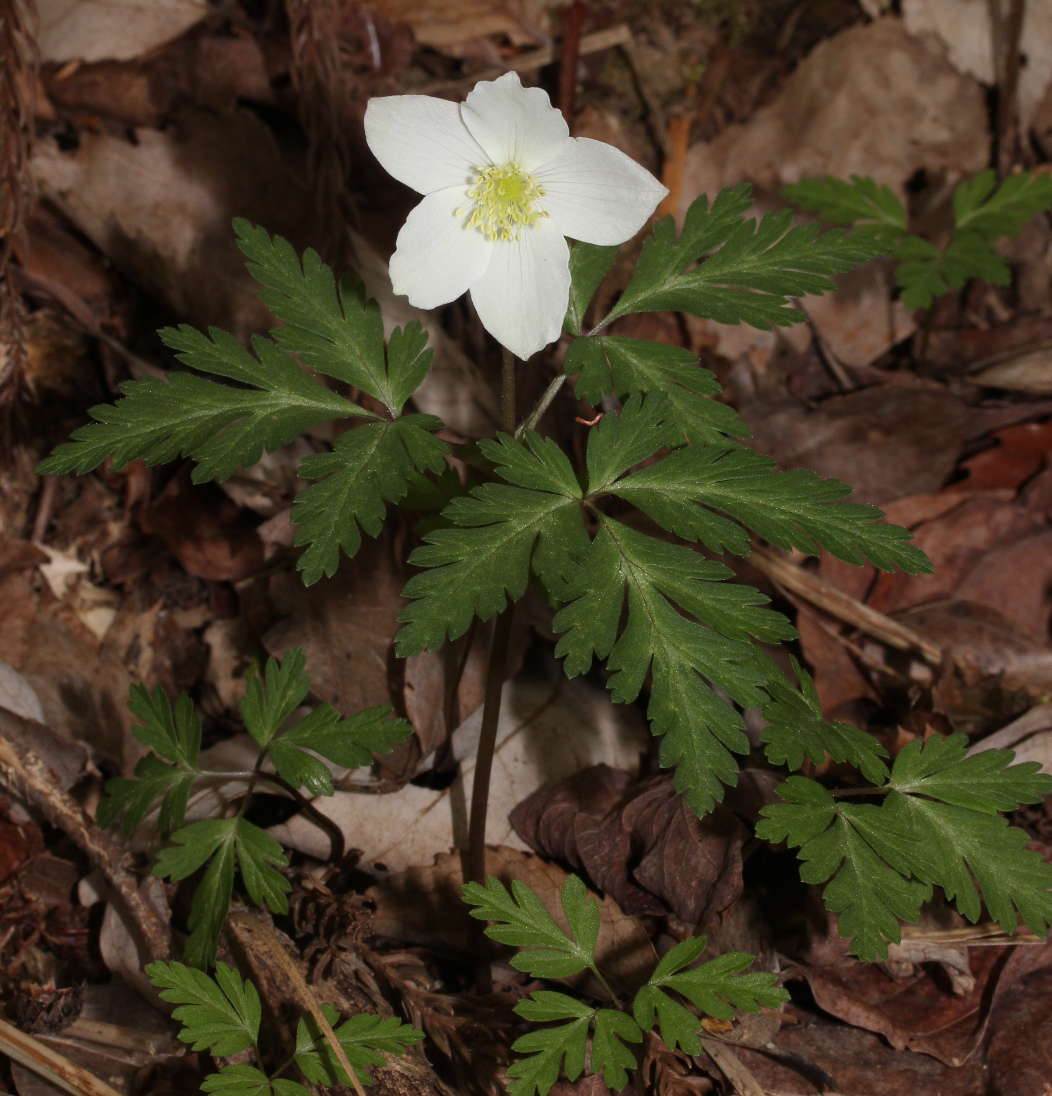 Anemone nikoensis, in Maibara, Shiga prefecture, Japan.